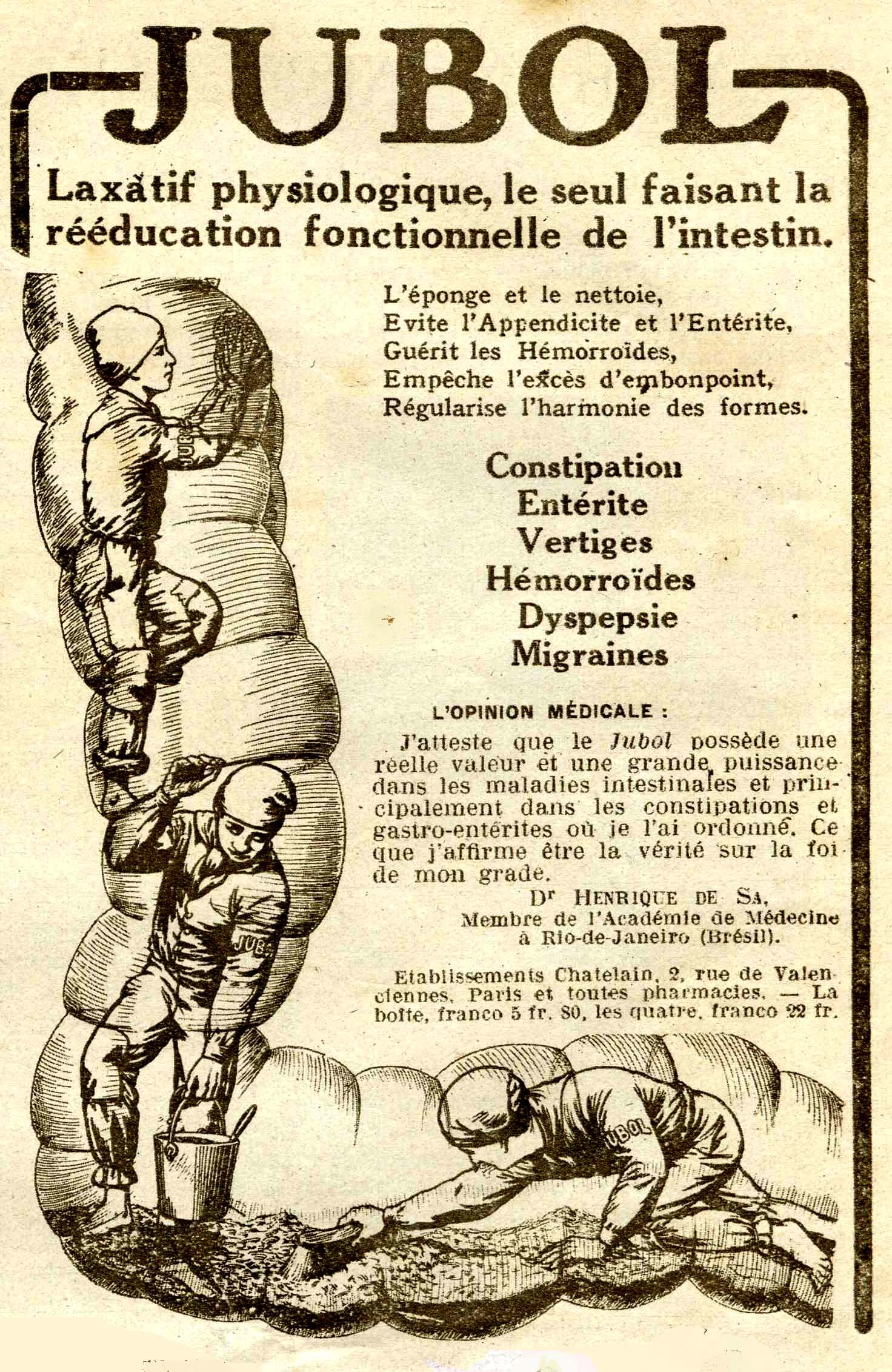 1919 advertisement for Jubol (laxative)